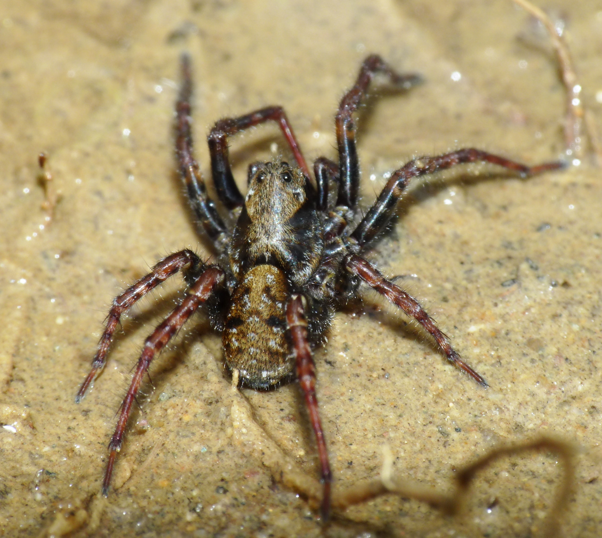 Arctosa leopardus, near Livorno, Tuscany, Italy